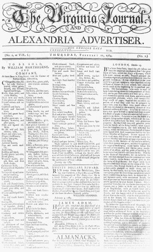 The Virginia Journal and Alexandria Advertiser; Date: 02-12-1784 (Alexandria, Virginia)